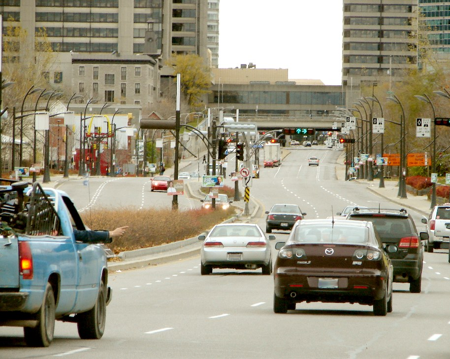 Boulevard Maissonneuve with Place-du-Portage and Place-du-Centre in the background, downtown Hull, Gatineau, Quebec, Canada